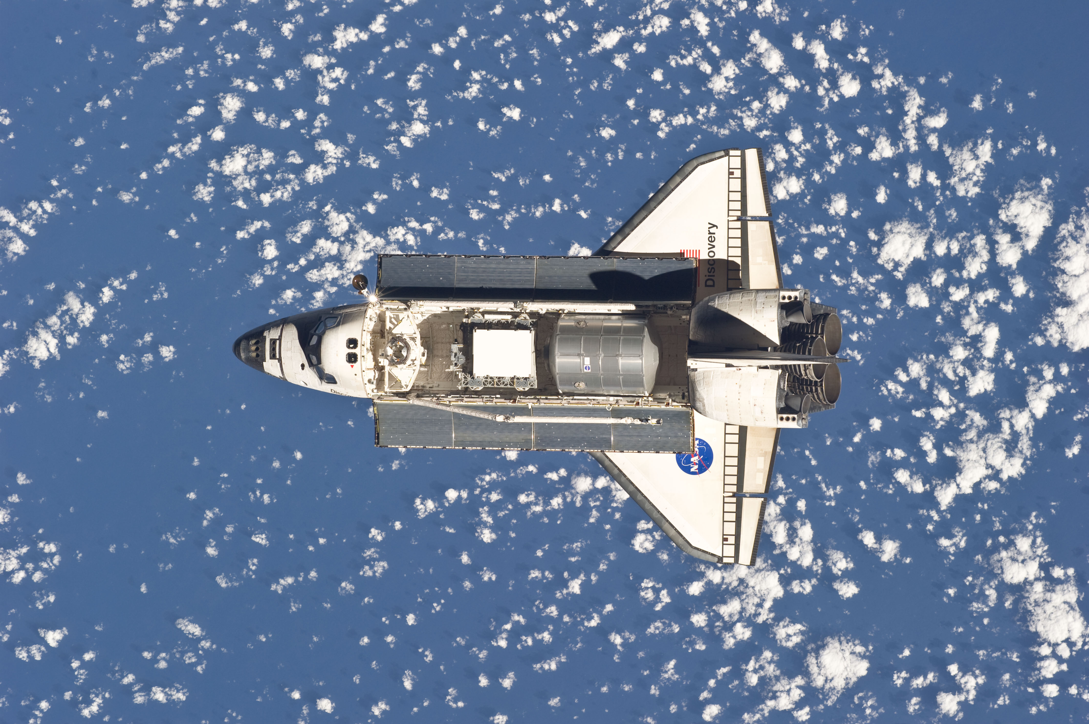 Backdropped by a blue and white part of Earth, space shuttle Discovery is featured in this image photographed by an Expedition 26 crew member as the shuttle approaches the International Space Station during STS-133 rendezvous and docking operations. Docking occurred at 2:14 p.m. (EST) on Feb. 26, 2011.